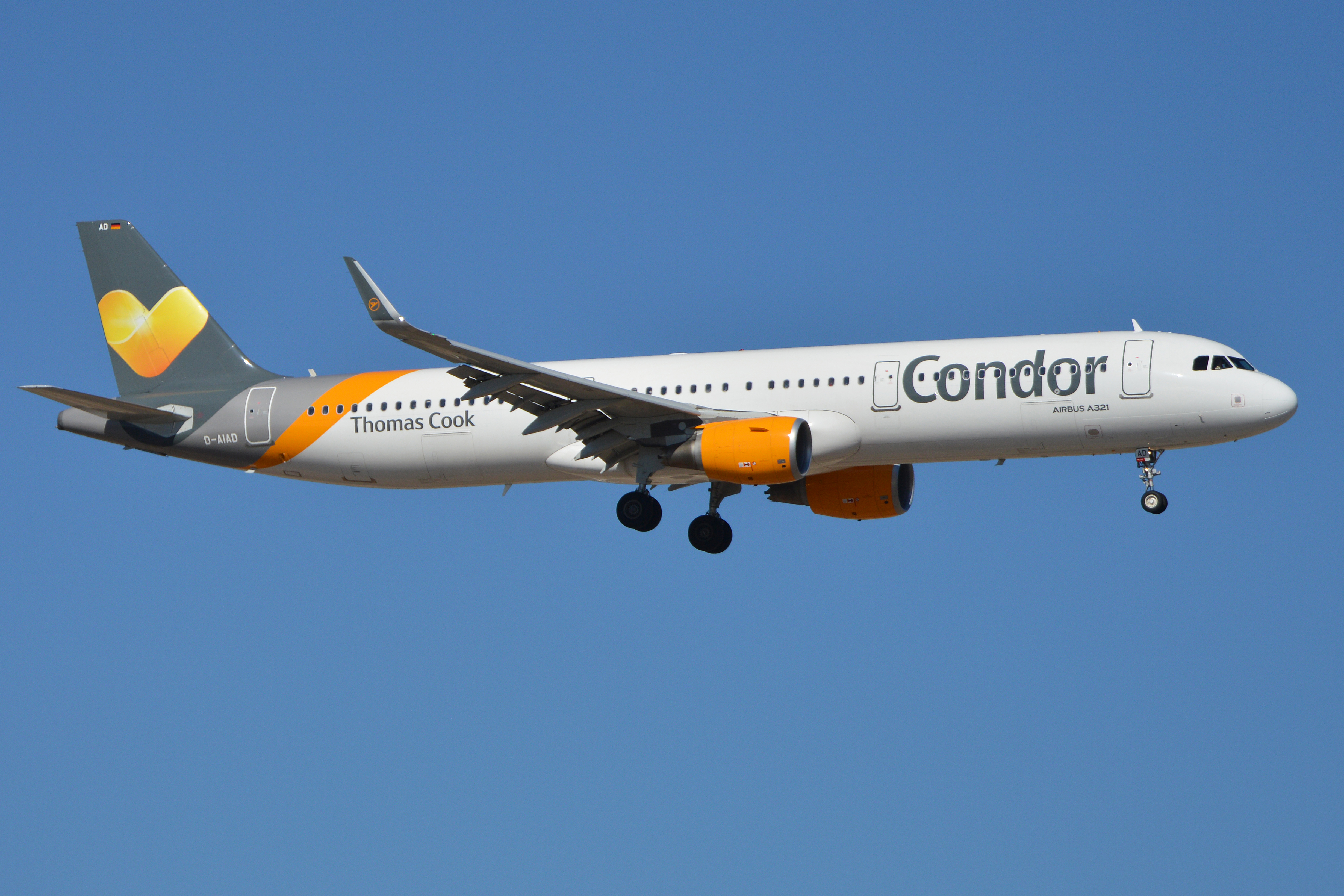 c/n 6053. Built 2014. Arriving on flight CFG1478/1LM from Frankfurt. Tenerife South Airport, Canary Islands. 20-1-2016